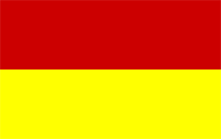 Summary Drapeau de la principauté de Bansda Source Nataraja File:Flag of Bansda.svg is a vector version of this file. It should be used in place of this raster image when not inferior. File:Drapeau Bansda.png File:Flag of Bansda.svg For more information, see Help:SVG. Templates:Vector version available/I18n Statut Nataraja Catégorie:Drapeau de principauté des Indes